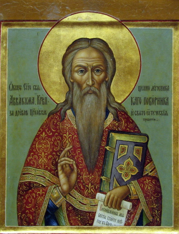 Icon of Saint Avvakum of Pustozersk